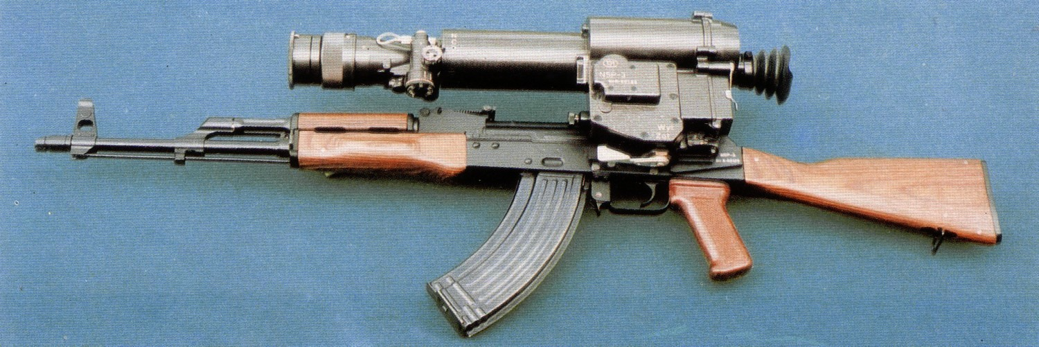 AKM assault rifle with NSP-3 night sight